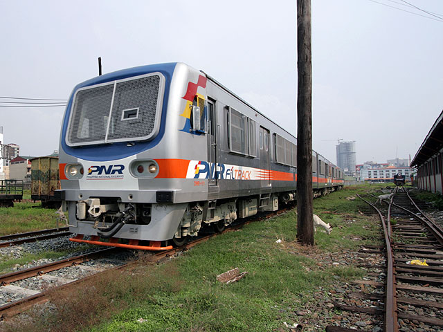 PNR DMU departing from Tutuban Terminal.